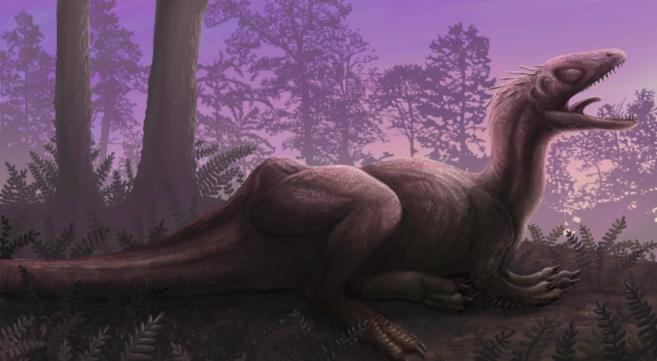 Concavenator corcovatus using its hump as a thermoregulatory device as suggested by the discoverers, absorbing sunlight in the warmth of a morning sunrise.